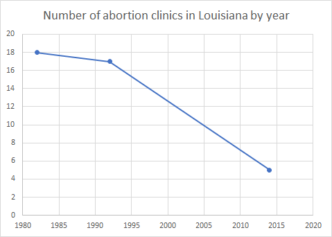 Number of abortion clinics in Louisiana by year. Created using data linked on .